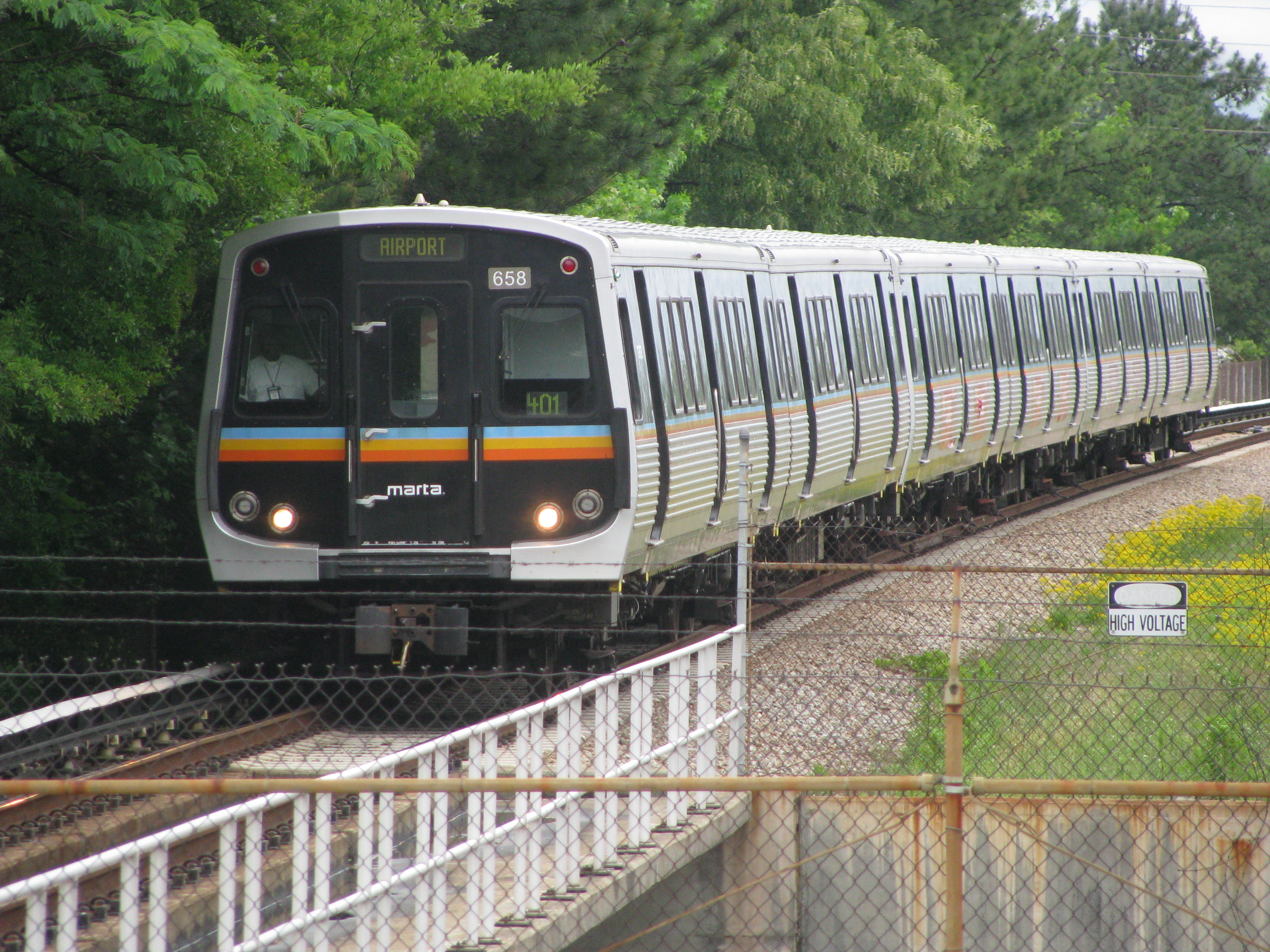 The newest rail cars to roll MARTA's tracks.